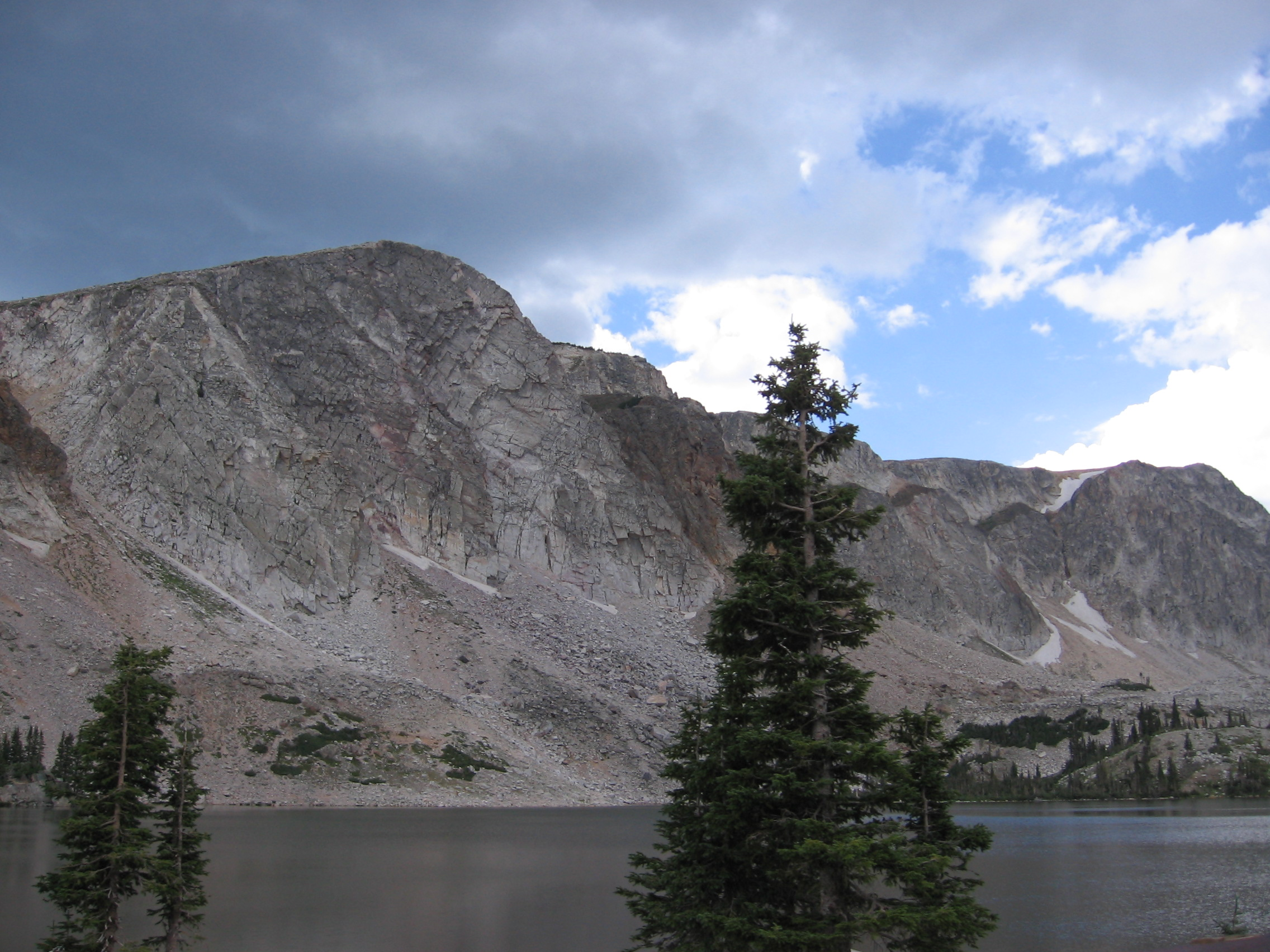 Lake Marie and "The Diamond" of the Snowy Range, from WYO Highway 130.